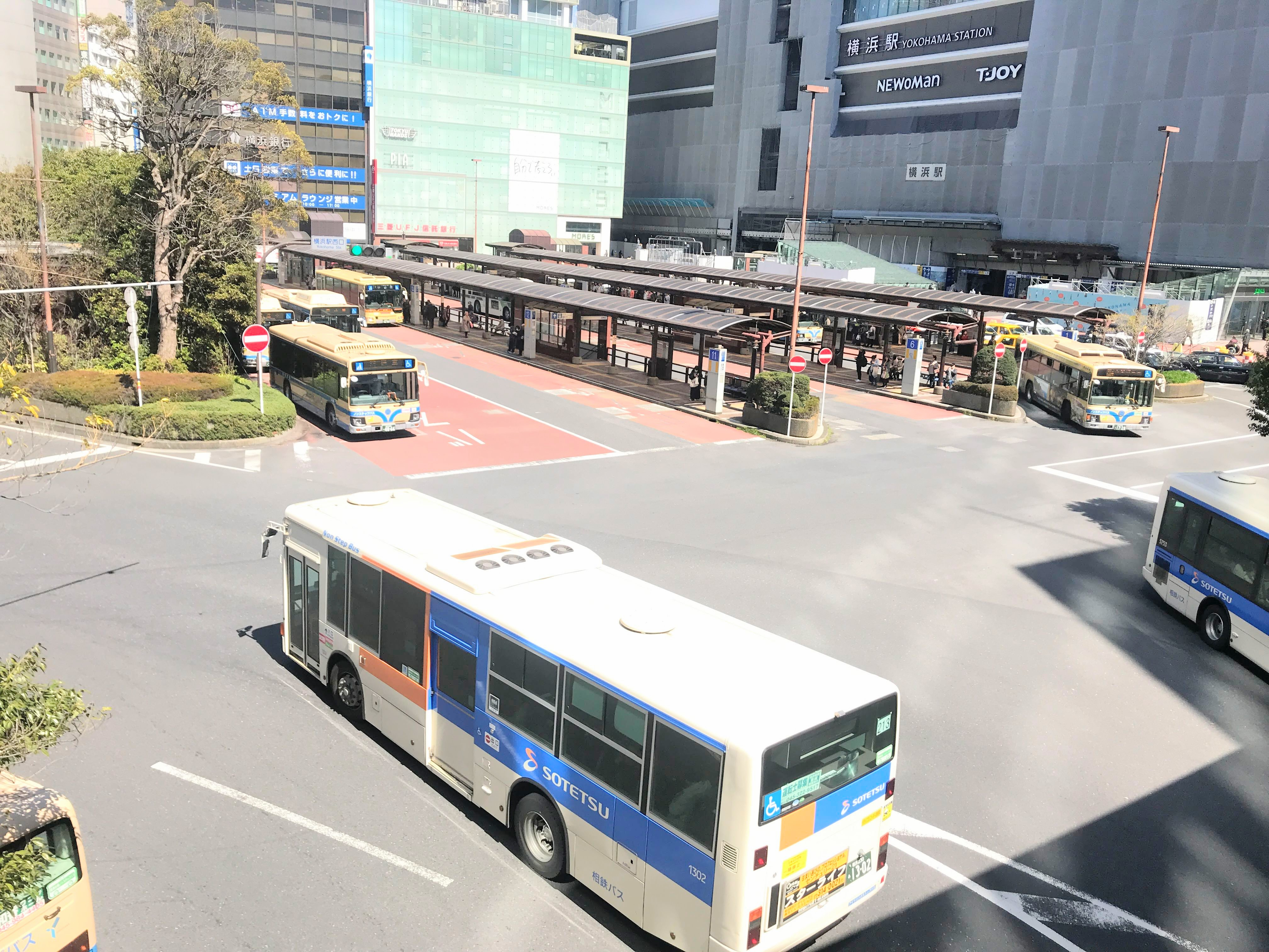 Yokohama station West Bus terminal.